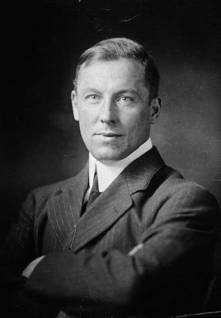 Poet and author Robert W. Service, sometimes referred to as "the Bard of the Yukon".